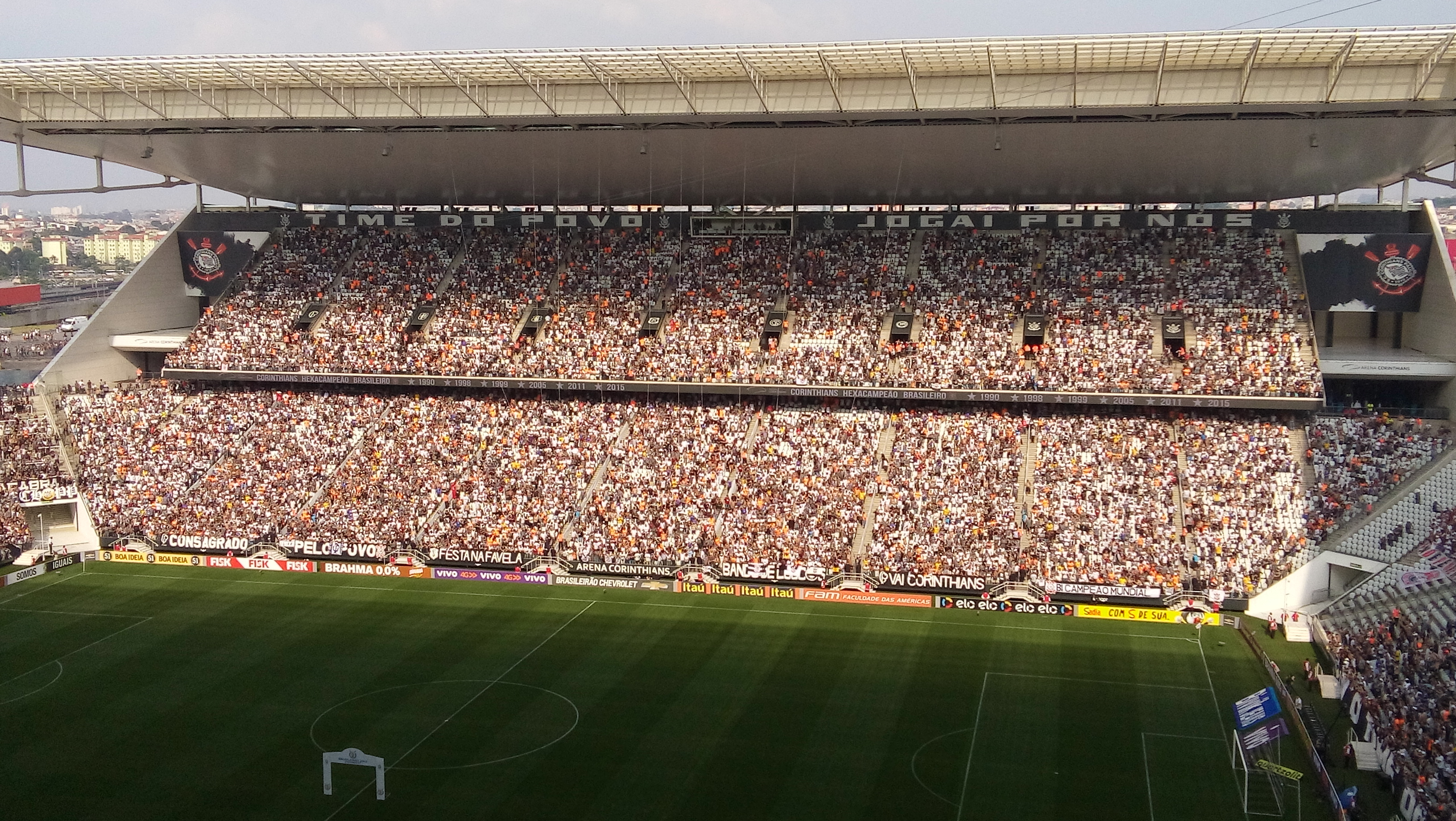 East sector - Arena Corinthians